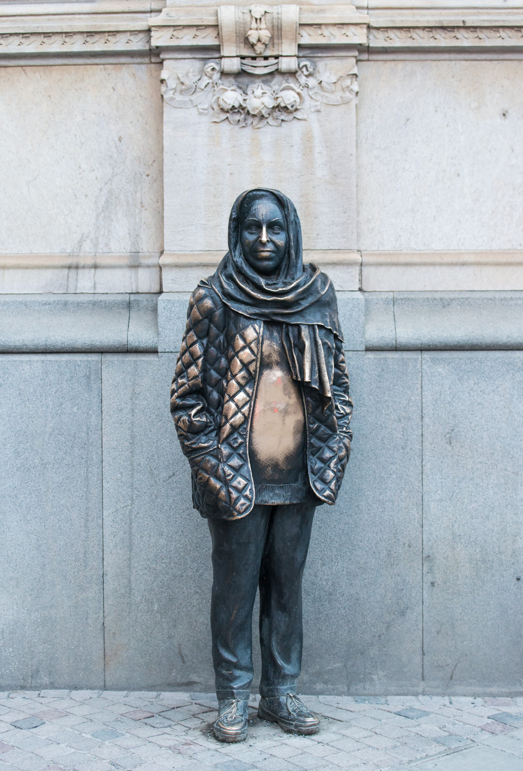 Statue depicting Margaretha Krook (1925-2001) outside Dramaten in Stockholm, by Marie-Louise Ekman (born 1944).